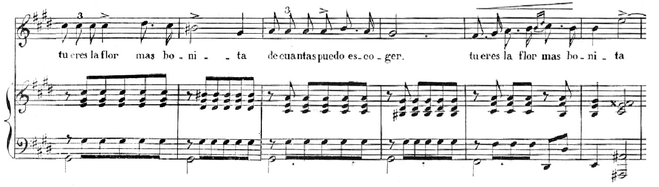 Estracto de El médico amor, de Ecos de alegría, por Paulinca Cabrero y Martínez